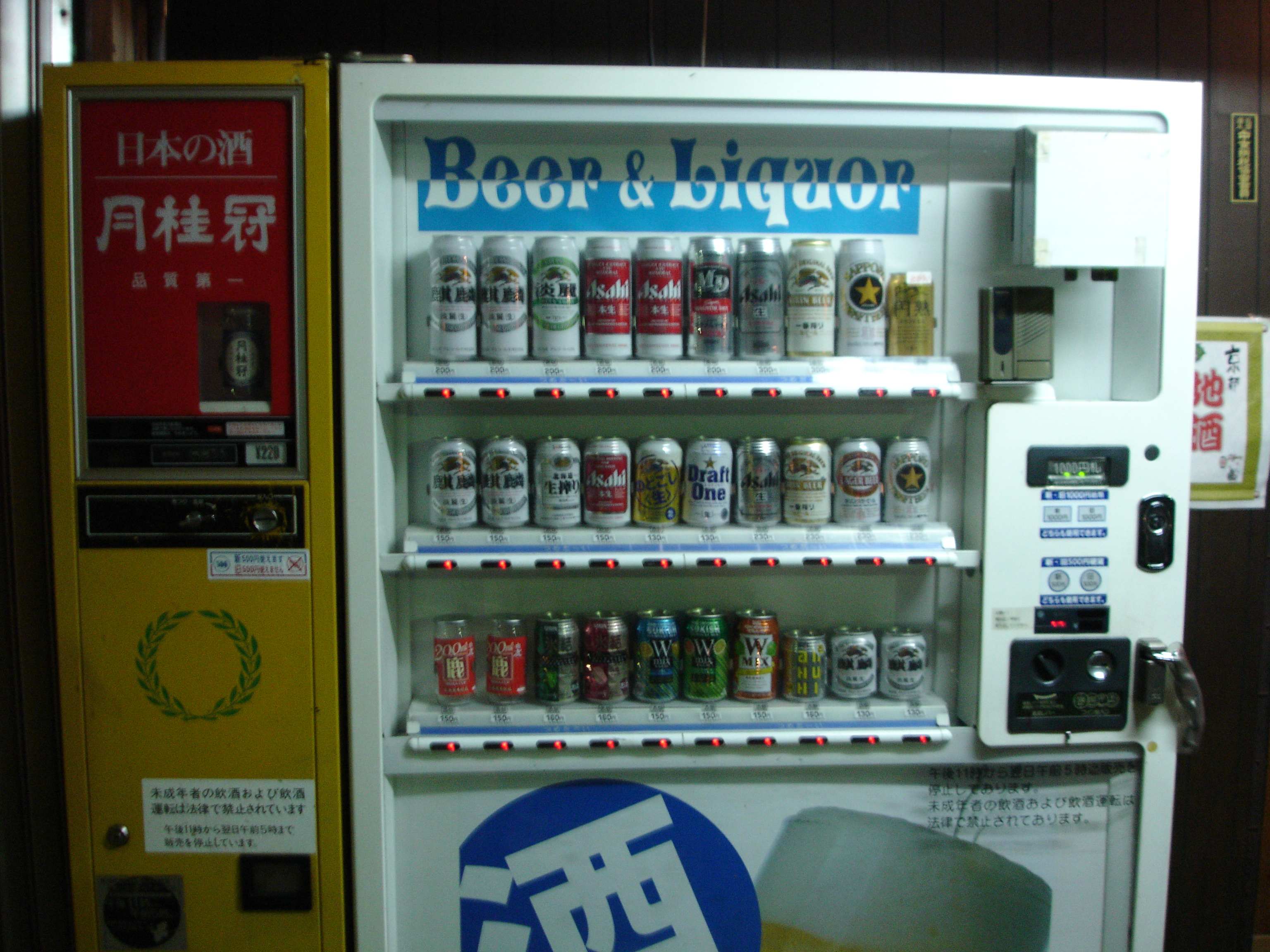 Vending machine dispensing beer and liquor in Kyoto, Japan.